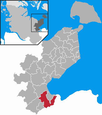 This map shows the area of the Gemeinde (municipality) Ratekau in the Kreis (district) Ostholstein, Schleswig-Holstein, Germany.